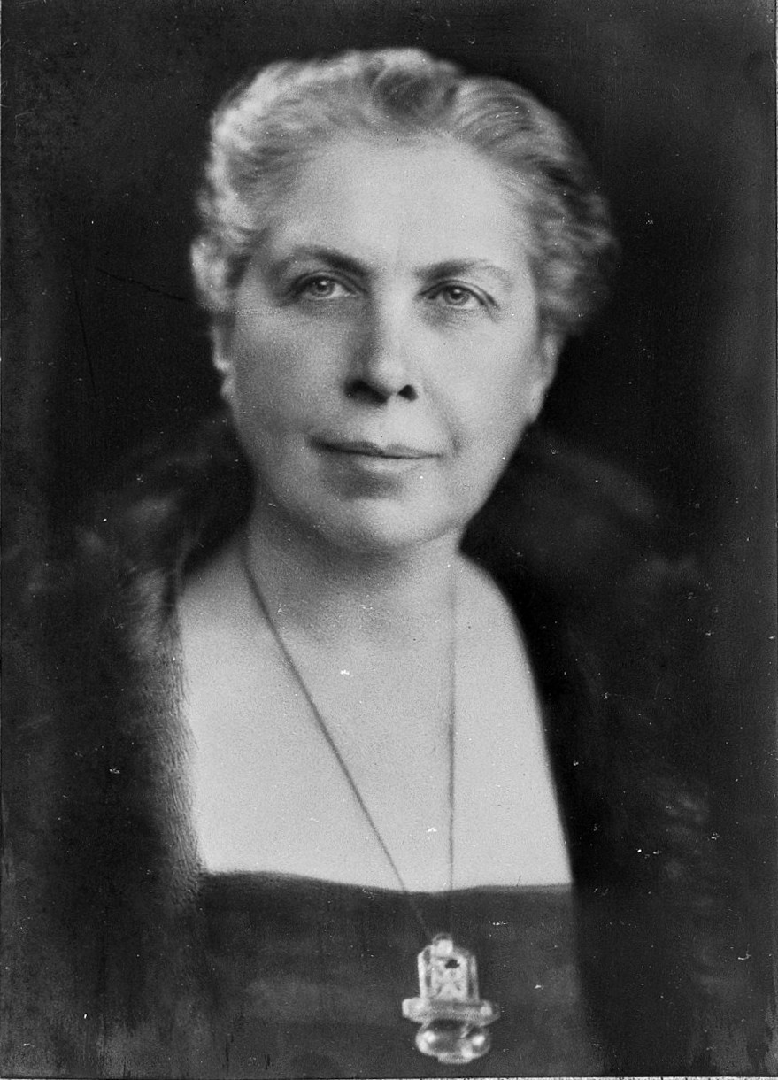 Christine Murrell. Archives & Manuscripts Keywords: Christine Murrell